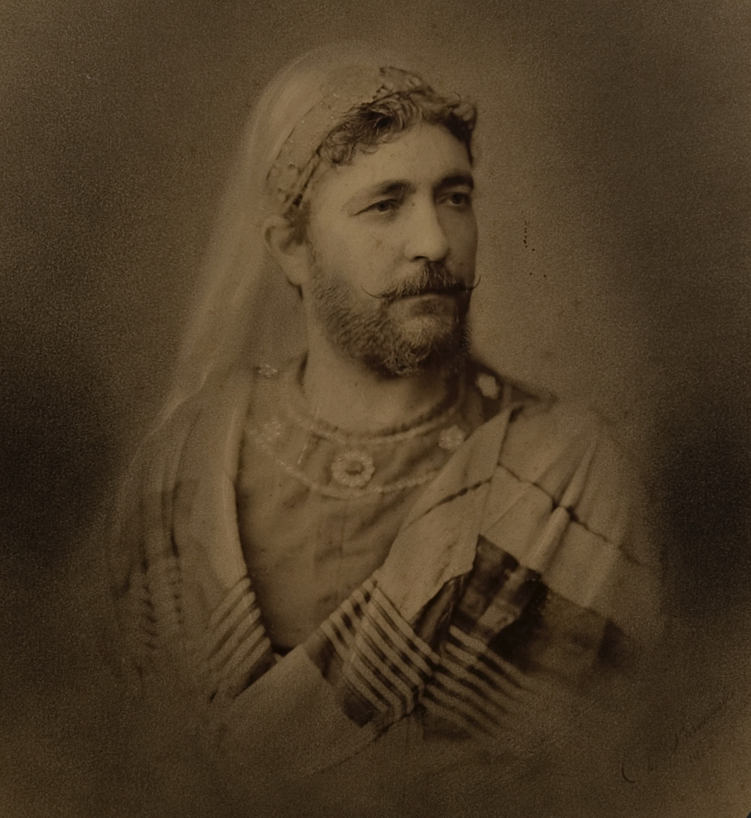 Angelo Masini as Radames in Giuseppe Verdi's Aida